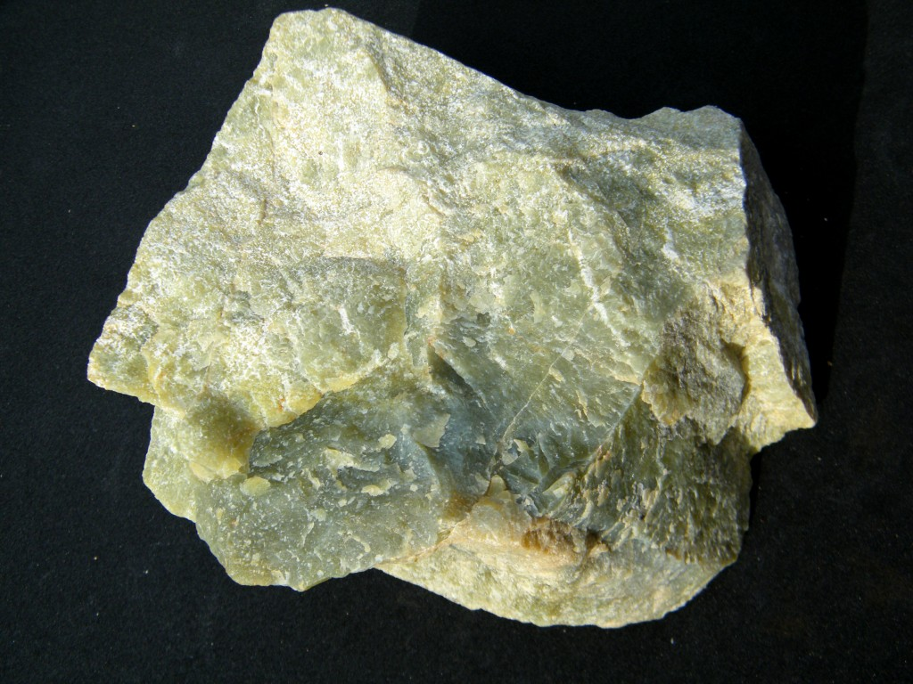 Antigorite, variety Bowenite (Size: 5" x 4" x 2.5") Locality: Asbestos mine, Thurman Township, Warren County, New York, USA Description: A chunk of serpentine marble with an area of hard, apple green bowenite. From seller: "The Bowenite is from an old quarry/prospect near Thurman, New York. I have never seen an actual name for the locality, the Army Corps of Engineers looked there for asbestos around WWII, it is present in small quantities. The small pit was filled in with logging debris in the early '70's. I had to dig deep in tailings to get good material."